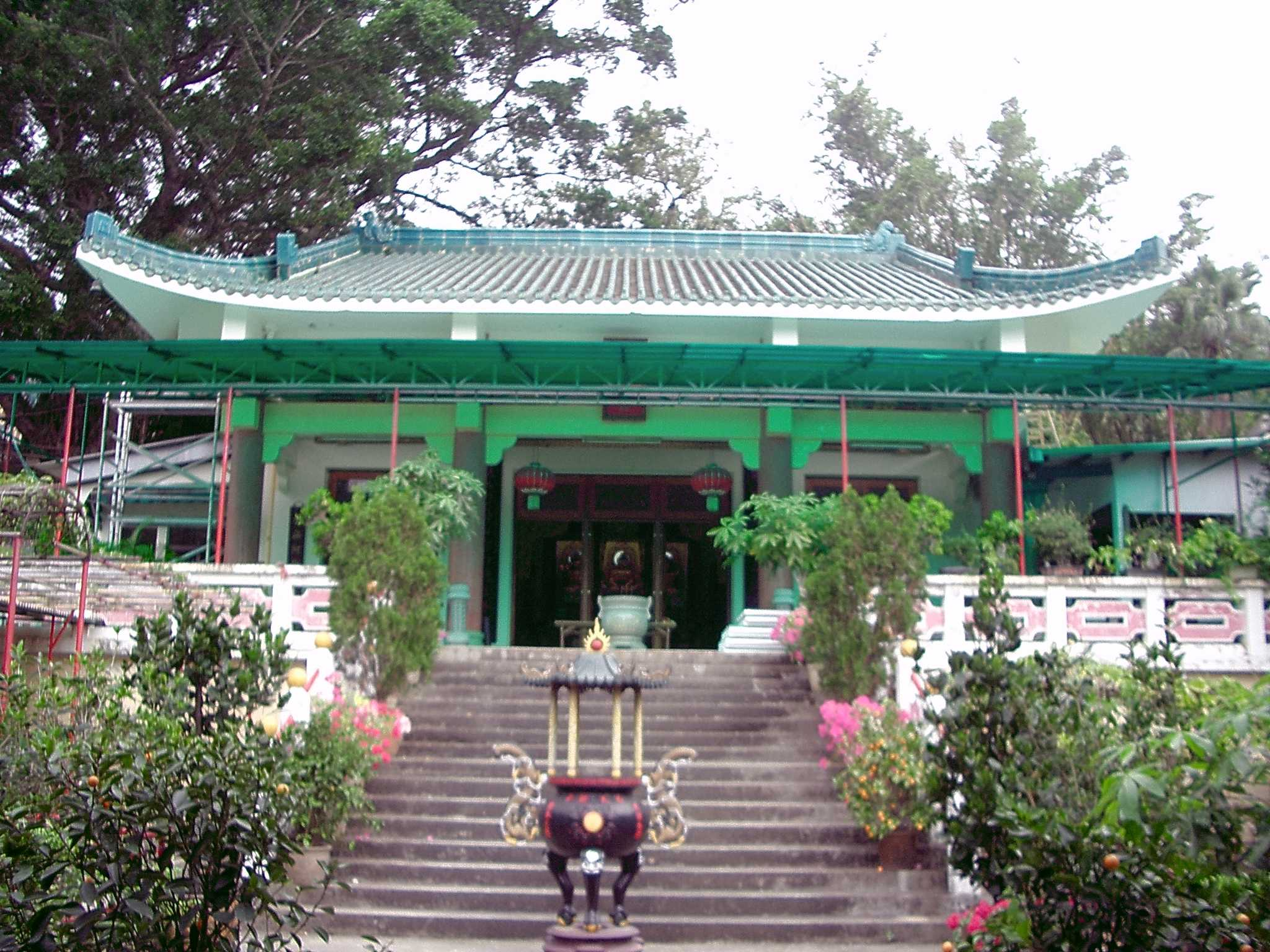 Mahavira Hall, Nam Tin Chuk Temple, Fu Yung Shan, Tsuen Wan, Hong Kong